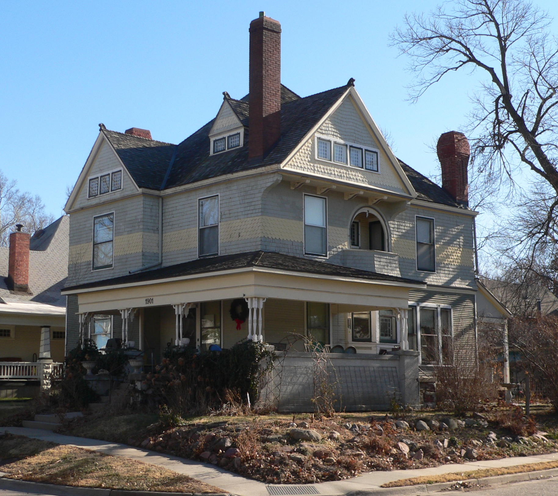 John M. Thayer house, located at 1901 Prospect Street in Lincoln, Nebraska; seen from the northwest.